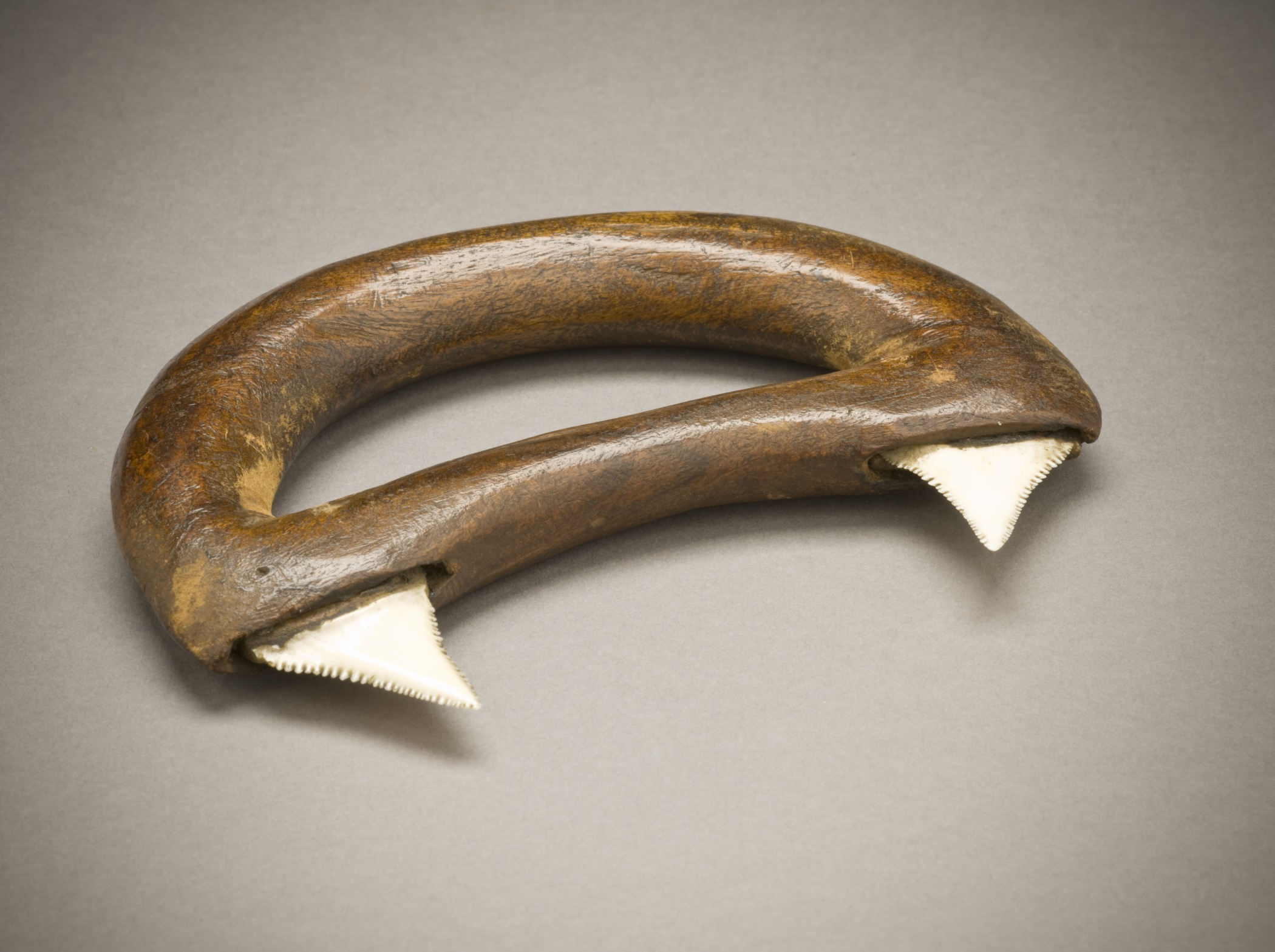 Hawaiian Islands, circa 1778 Arms and Armor Wood and shark teeth 5 x 4 3/8 x 3 1/2 in. (12.7 x 11.11 x 8.89 cm) Purchased with funds provided by the Eli and Edythe Broad Foundation with additional funding by Jane and Terry Semel, the David Bohnett Foundation, Camilla Chandler Frost, Gayle and Edward P. Roski and The Ahmanson Foundation (M.2008.66.27) Art of the Pacific Currently on public view: Ahmanson Building, floor 1